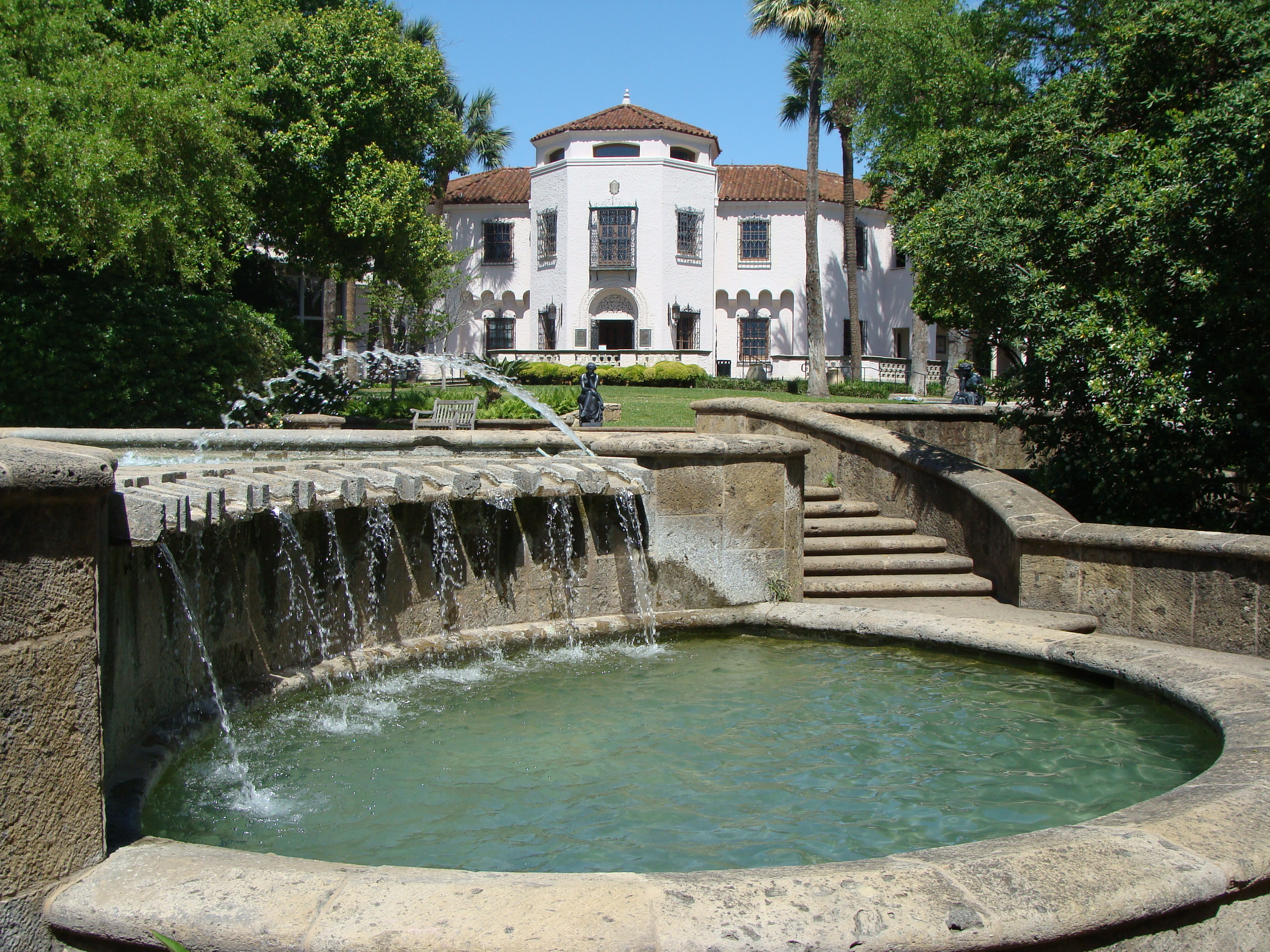 McNay Art Museum. courtyard. Commissioned in 1927. San Antonio, Texas.